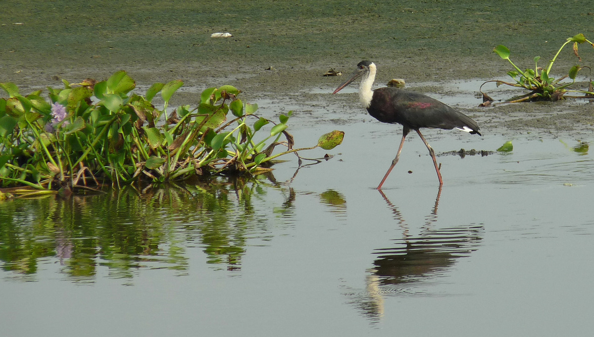 Woolly-necked Stork Ciconia episcopus, at Singanallur Lake, Coimbatore, Tamil Nadu, India